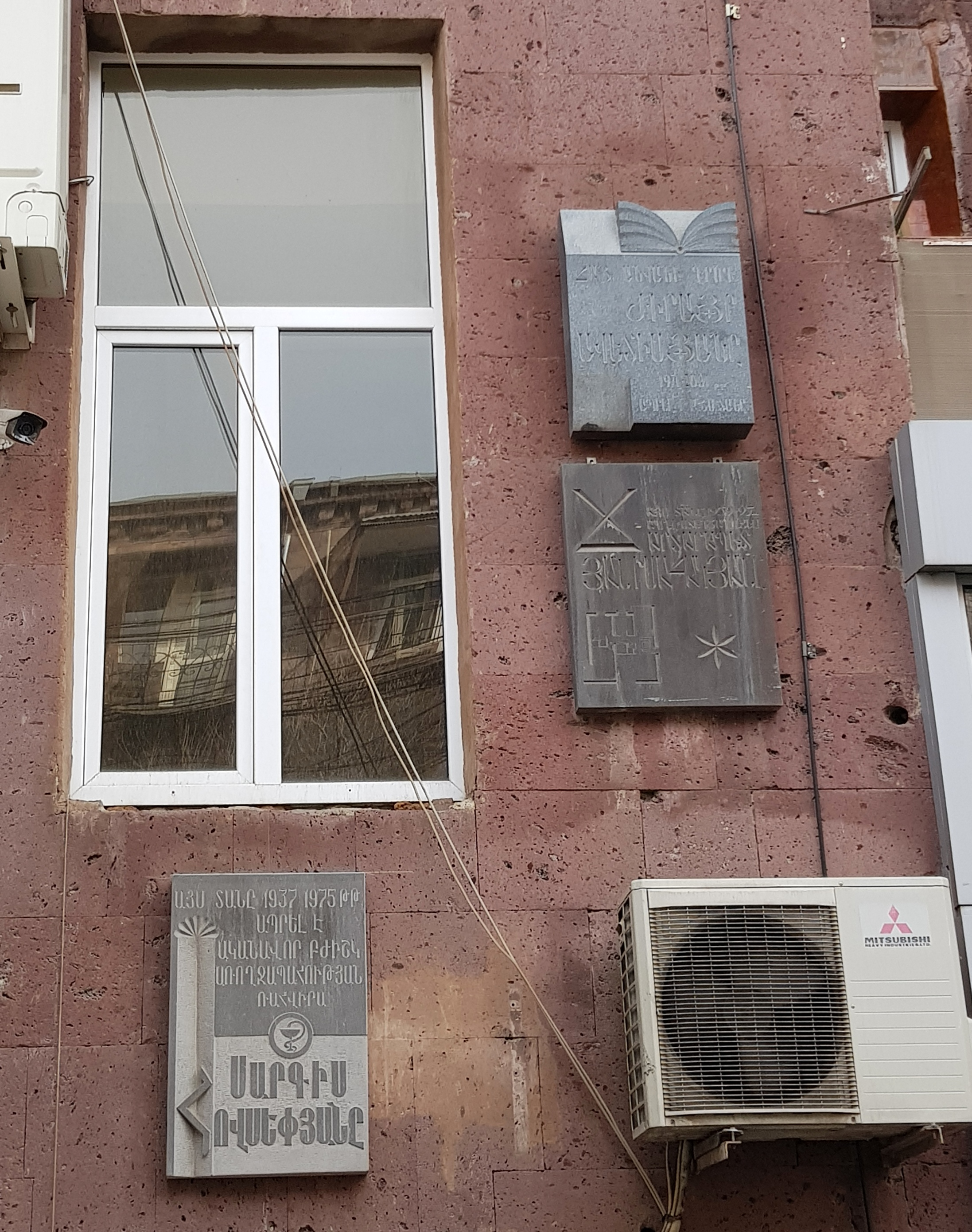 Plaques on Saryan street, Yerevan